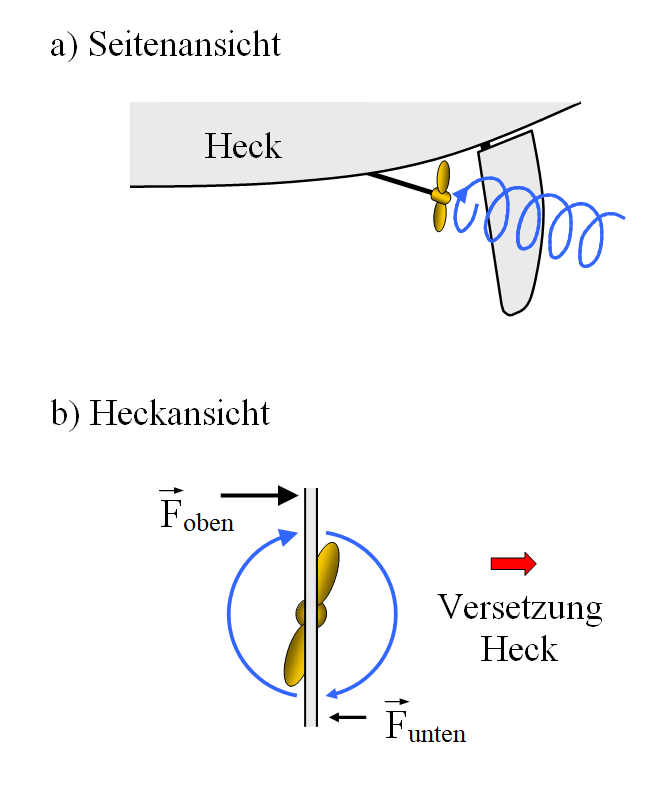 Propeller walk at headway caused by the rudder blade